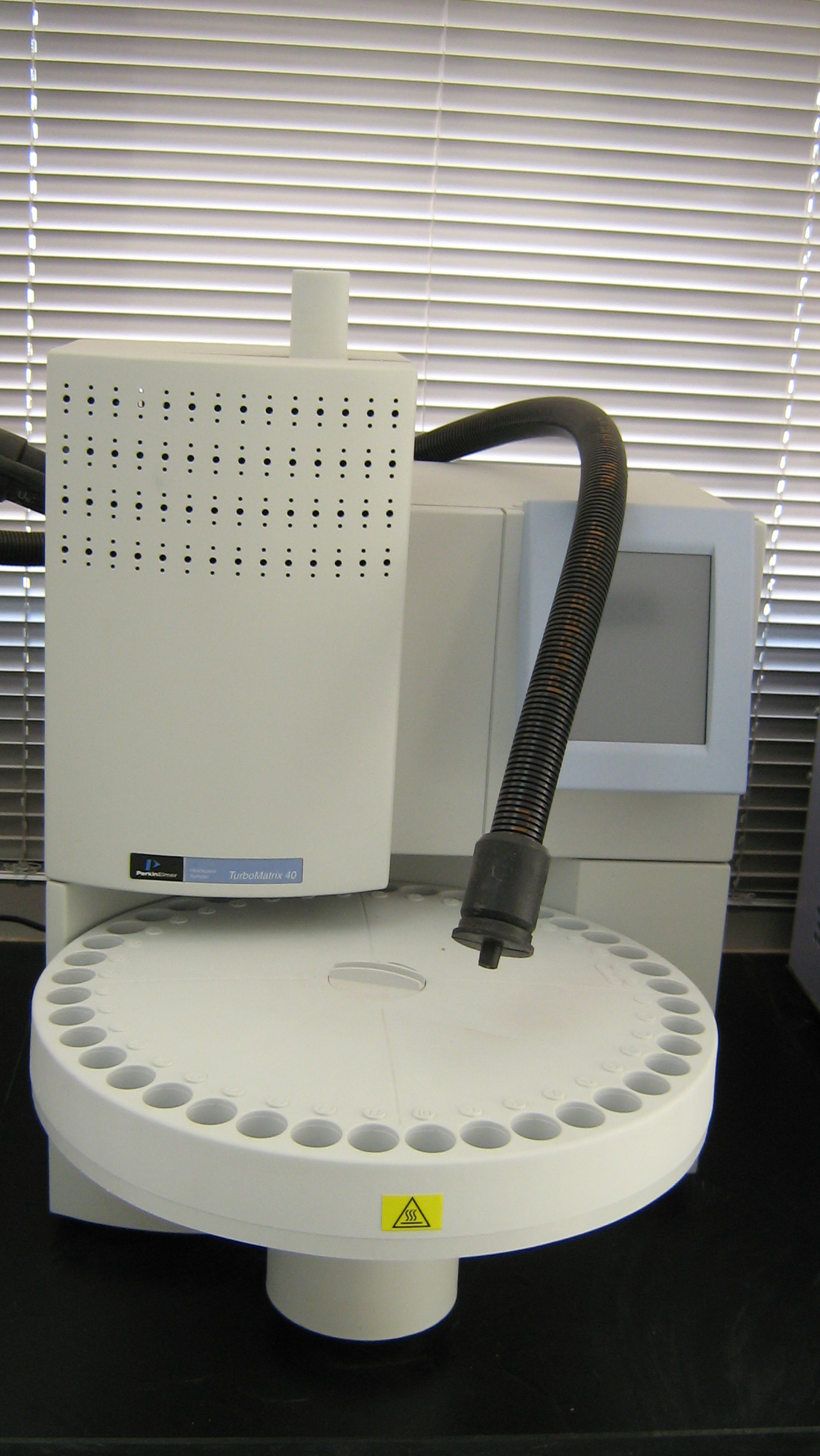 Automatic headspace sampler for GC